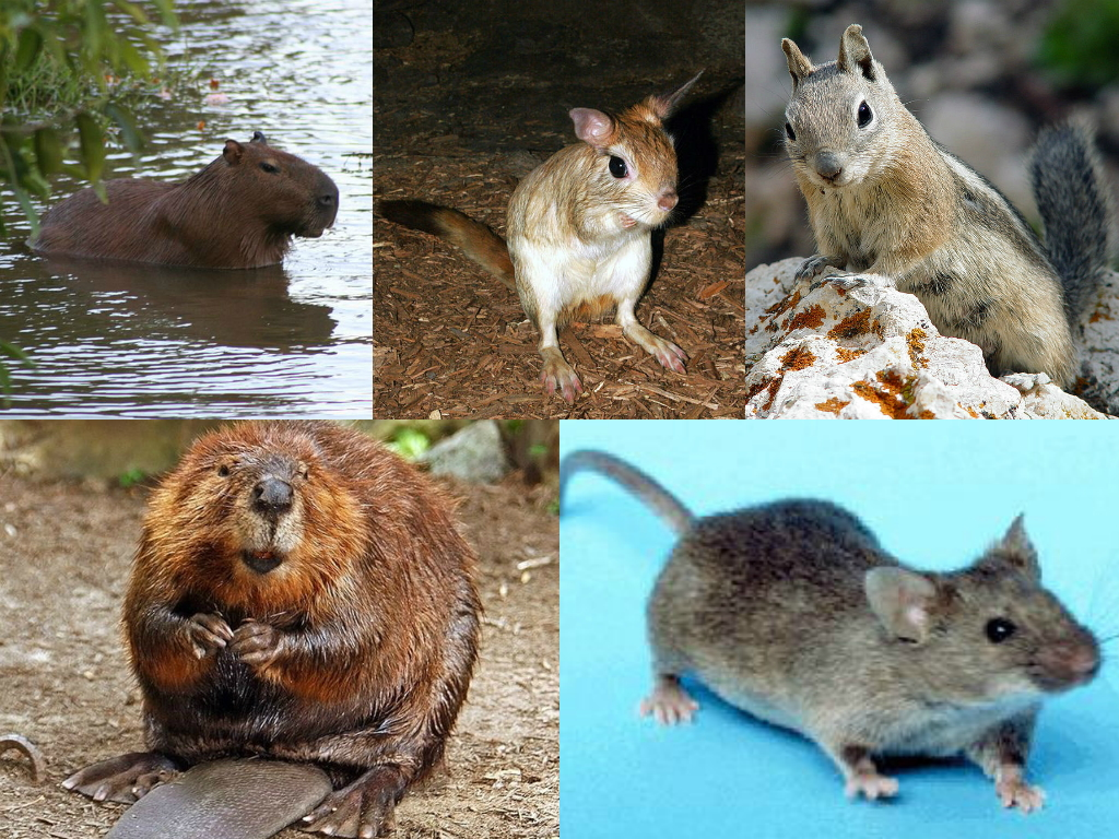 Various rodent species representing the different suborders (left to right, top to bottom) Anomaluromorpha, Myomorpha, Sciuromorpha, Castorimorpha and Hystricomorpha